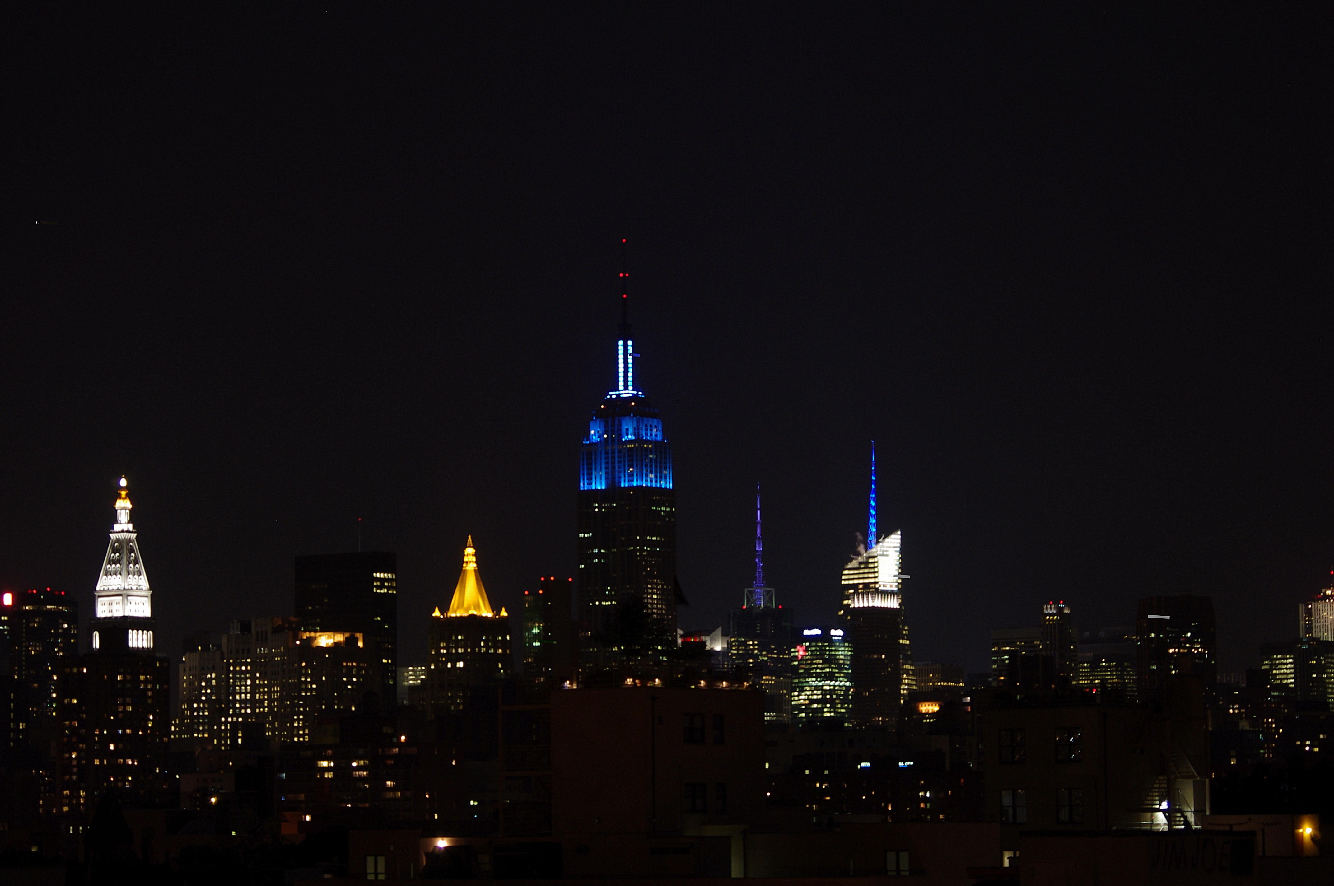 The Empire State Building lit blue/blue/blue in honor of the National September 11 Memorial & Museum Opening